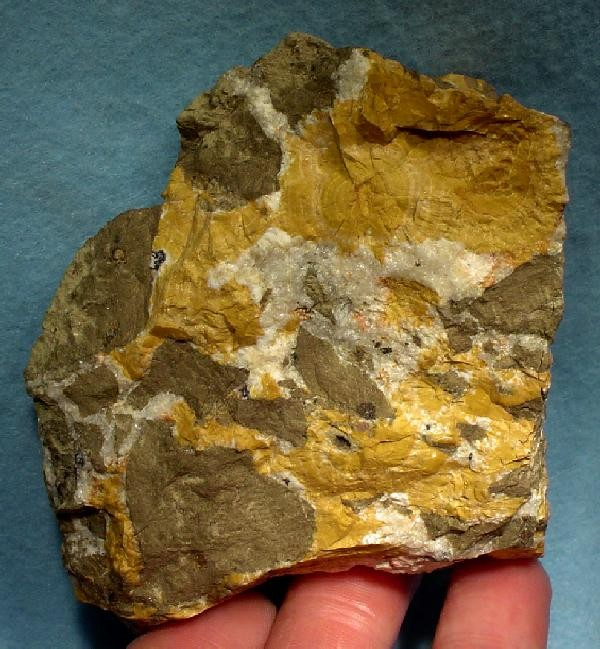 Natrolite Locality: Hohentwiel Mt., Singen, Hegau, Baden-Württemberg, Germany (Locality at ) Size: 9.8 x 8.1 x 4.1 cm. A CLASSIC, OLD-TIME natrolite specimen from the German Type Locality - Hohentwiel Mountain, Baden-Wurttemberg. Tan, radial aggregates of natrolite are found in a brecciated, gray host rock. This rich and showy old-timer comes from an old European collection, where everything dates to the 1800s. This whole collection had myriad old materials, though I cannot name the owner, and was well known in Europe. Accompanied by an old, handwritten German label.